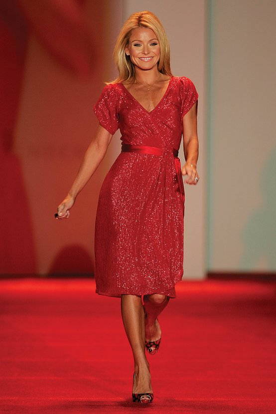 Kelly Ripa, taken at the 2007 Red Dress Collection for the Heart Truth foundation.